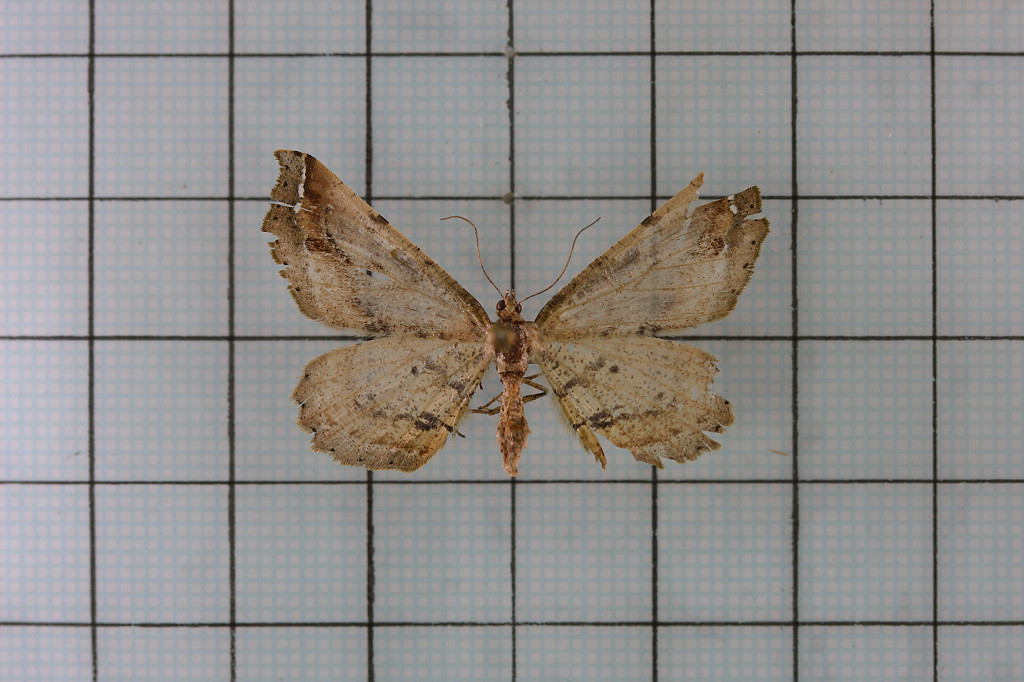 Heterocallia truncaria Leech 暗帶翅截翅尺蛾 張保信 台灣蛾類圖說 四 p.213